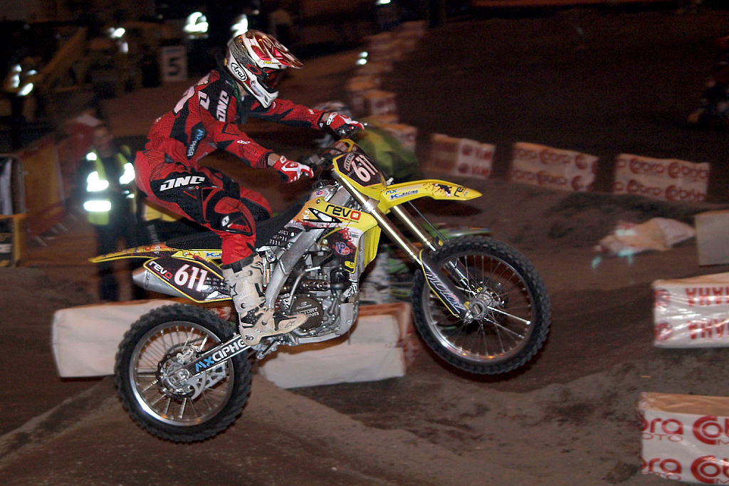 ACU British Supercross Championship